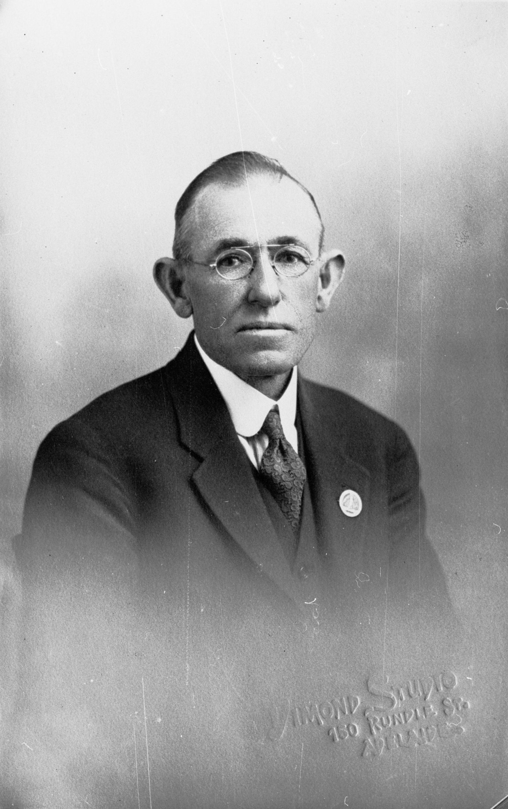 Not found in index. See also 5596. (G Brooks).